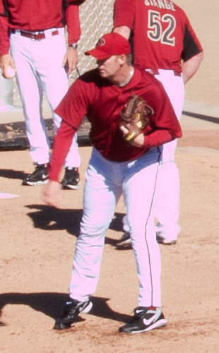 J. J. Putz Camera: Canon EOS REBEL T1i License on Flickr (2011-02-18): CC-BY-2.0 Flickr tags: baseball, spring training, scottsdale, cactus league